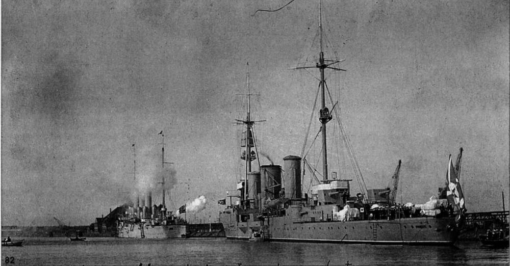 Soviet cruisers Avrora and Profintern at Swinemünde, 1929.